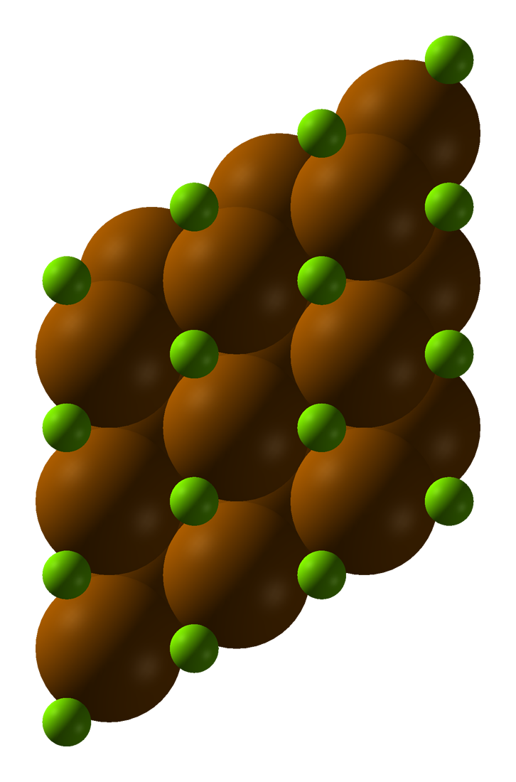 Space-filling model of part of the crystal structure of magnesium polonide, MgPo. X-ray crystallographic data from J. Phys. Chem. (1960) 64, 434–440. Model constructed in CrystalMaker 8.1. Image generated in Accelrys DS Visualizer.